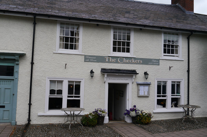 A former coaching inn, now a Michelin-starred French restaurant with rooms.